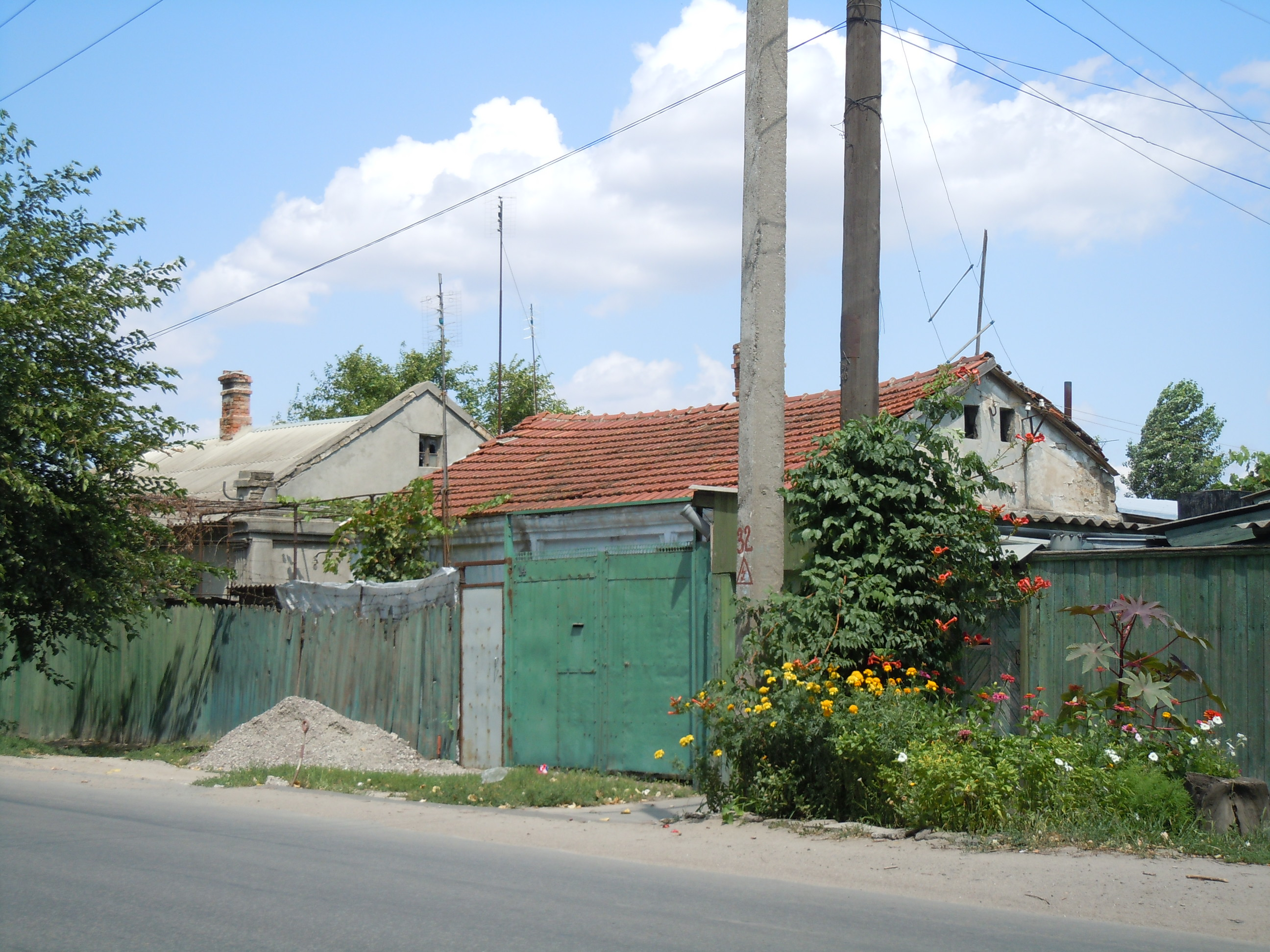 Typical buildings in Peresyp, Odessa